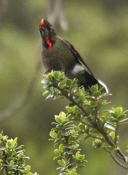 Male Rainbow-Bearded Thornbill (Chalcostigma herrani). Yanacocha Reserve, Ecuador. 3/8/2007